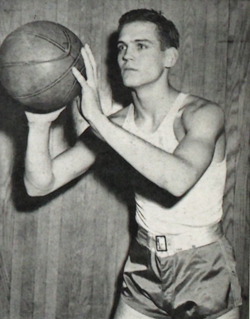 Ohio State University basketball player Jack Underman from the 1946 “Makio” yearbook